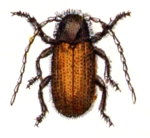 Hedobia pubescens, from Calwer's Käferbuch, Table 28, Picture 18. Taxonomy was updated to 2008, using mostly the sites Fauna Europaea and BioLib. Please contact Sarefo if the determination is wrong!